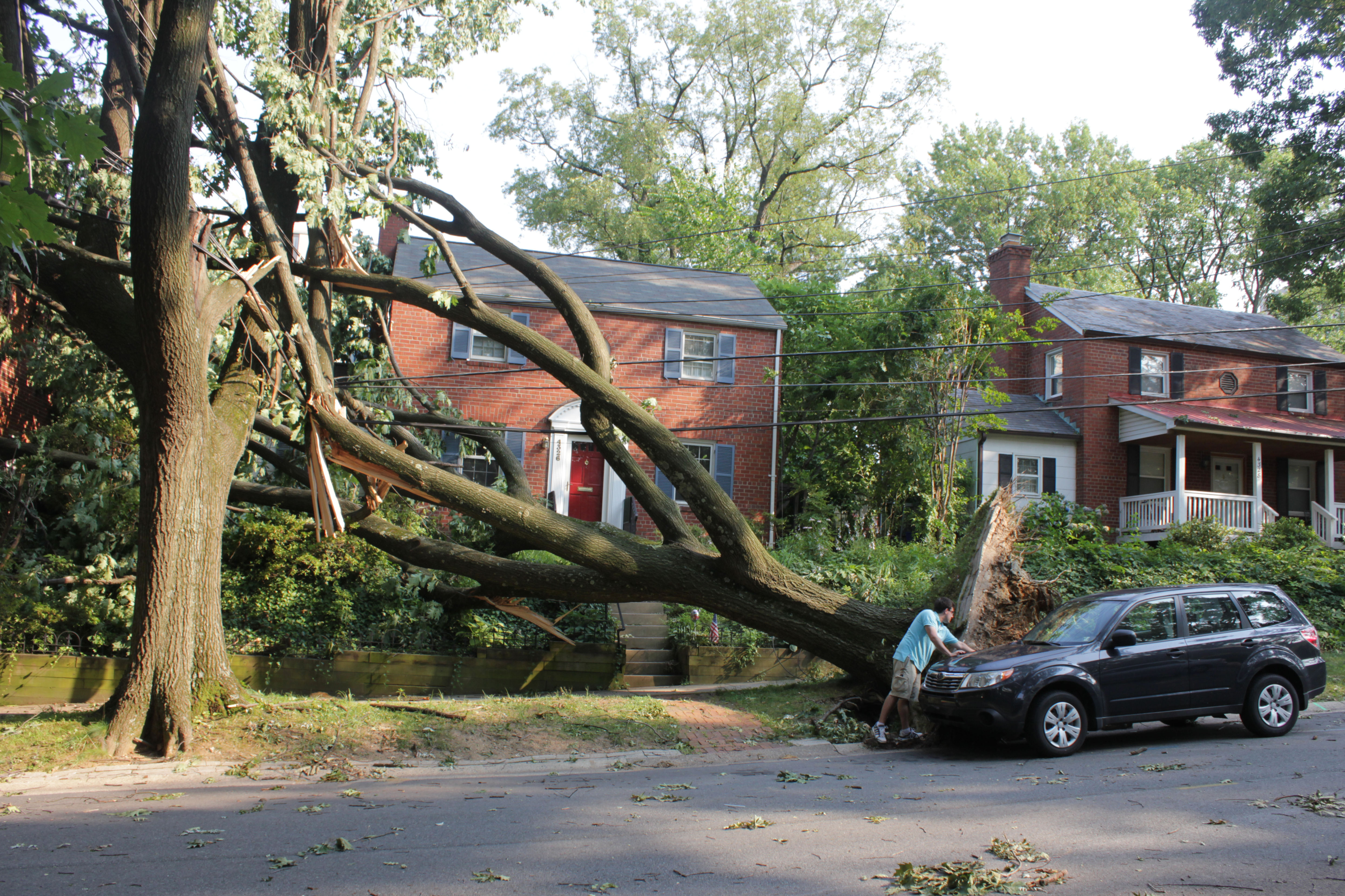 Tree and powerlines down in Woodley Park, Washington DC following June 29, 2012 derecho storm.